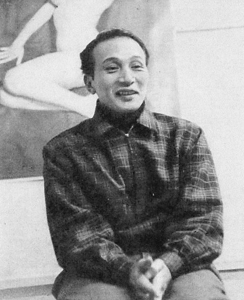 Shichiro Fukazawa